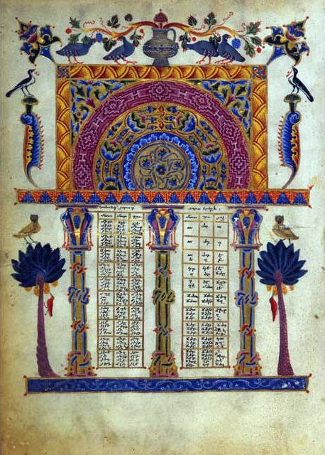 Page from Armenian bible illuminated by T'oros Roslin, 1256